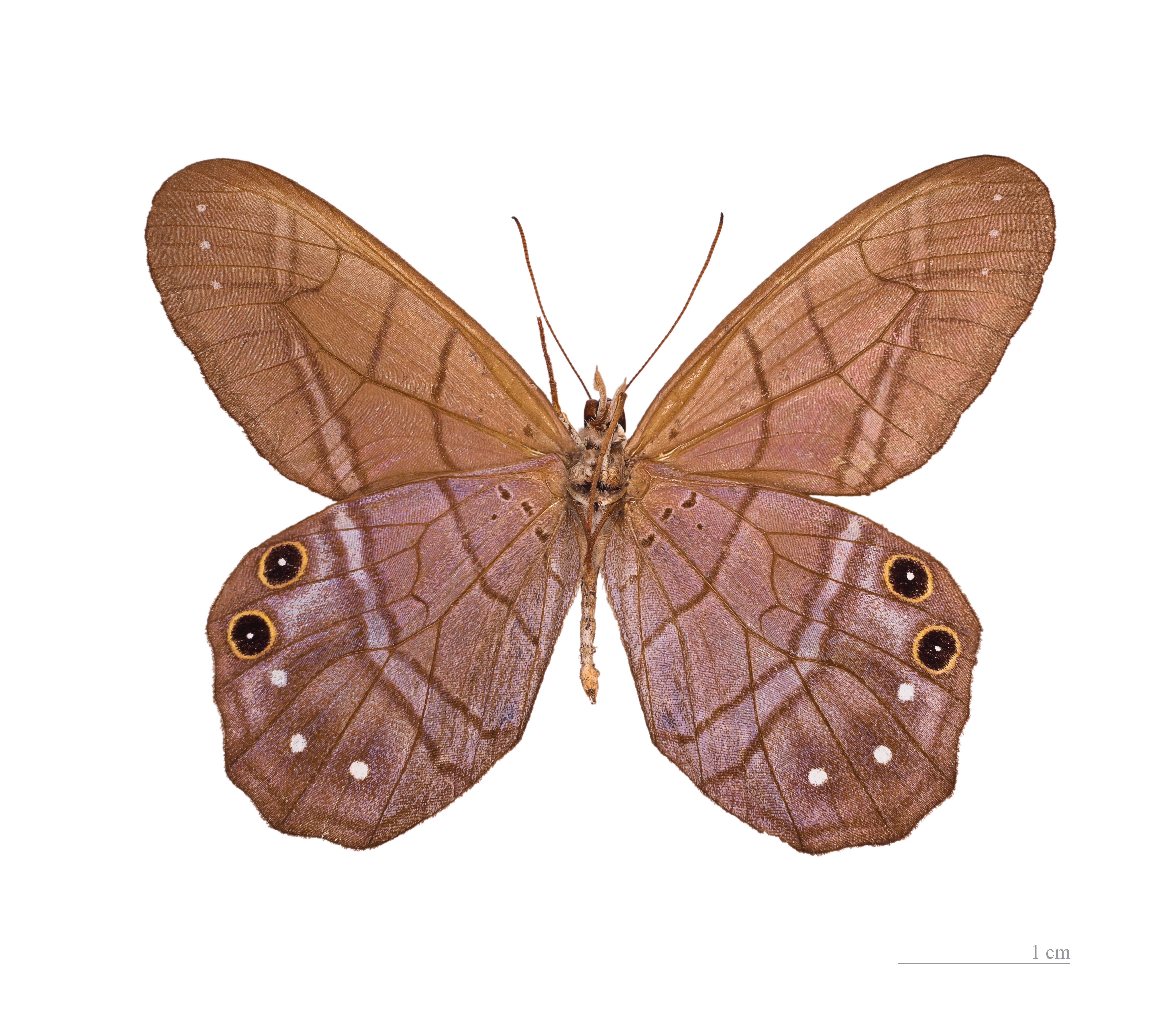 △ Ventral side Locality : Kourou, Mont des singes, French Guiana